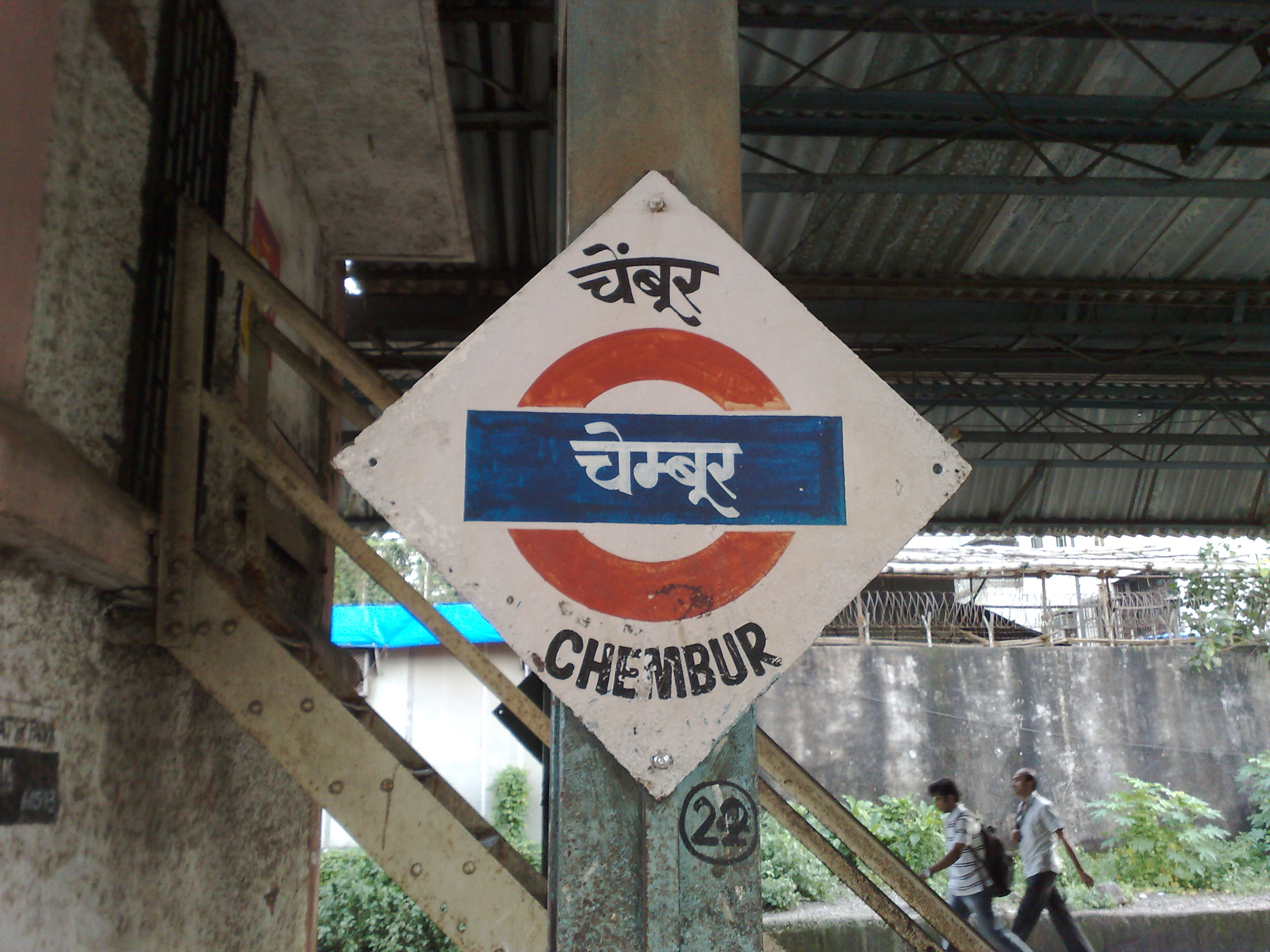 Chembur platformboard